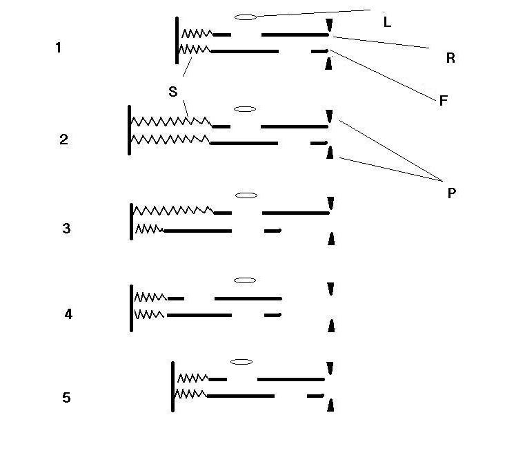 Minox shutter diagram L: lens F: front shutter leaf R: rear shutter leaf P: pin S: spring 1: Minox closed, spring relax 2: Minox pull open, springs tensioned 3: Shutter released, film exposed 4: end of shutter run 5: Minox camera closed